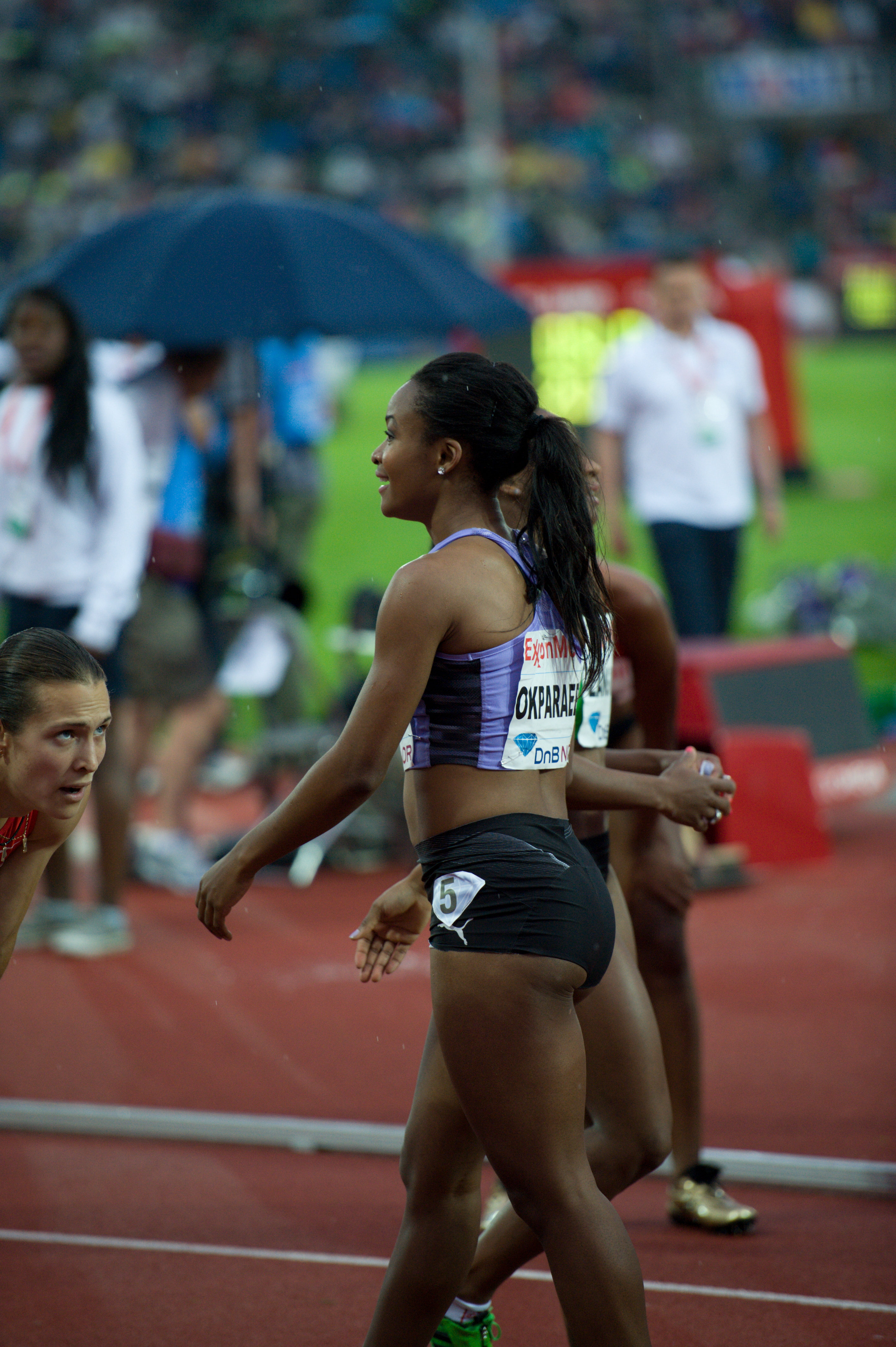 Ezinne Okparaebo after her 100 m run at Bislett Games 2011